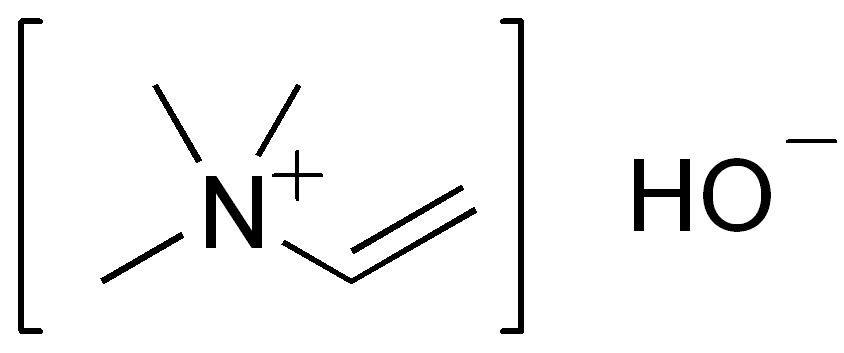 chemical structure of neurine